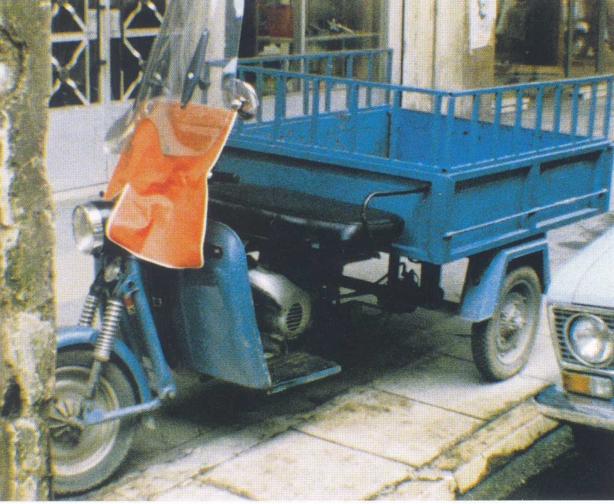 A characteristic photo of a MEBEA light pick-up truck (motorcycle). I took it in Patras in the early 1980s (the vehicle is much older).